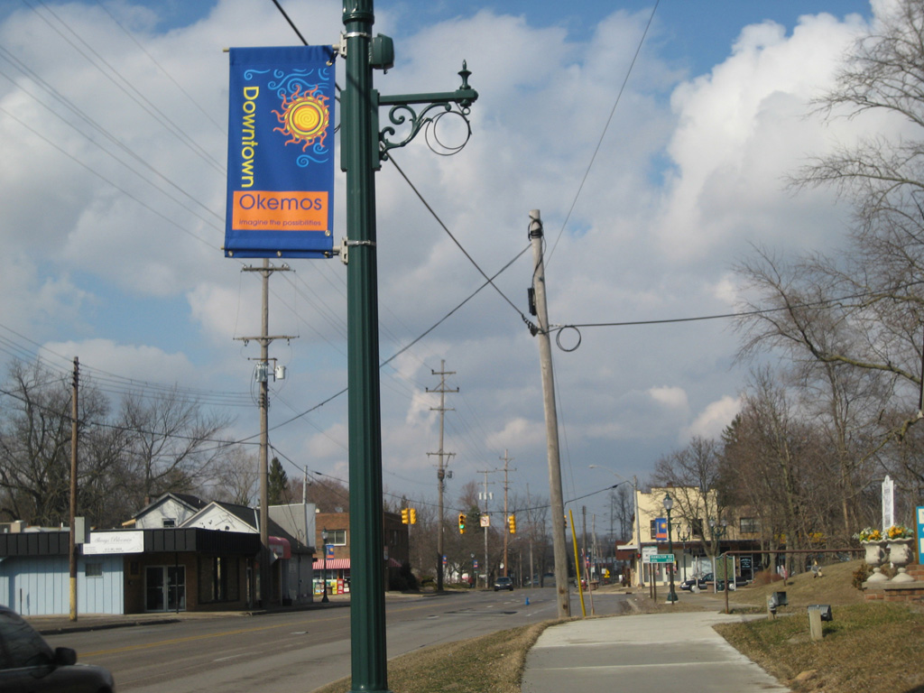 Northbound Okemos Road in downtown Okemos, Michigan, near Hamilton Road intersection.